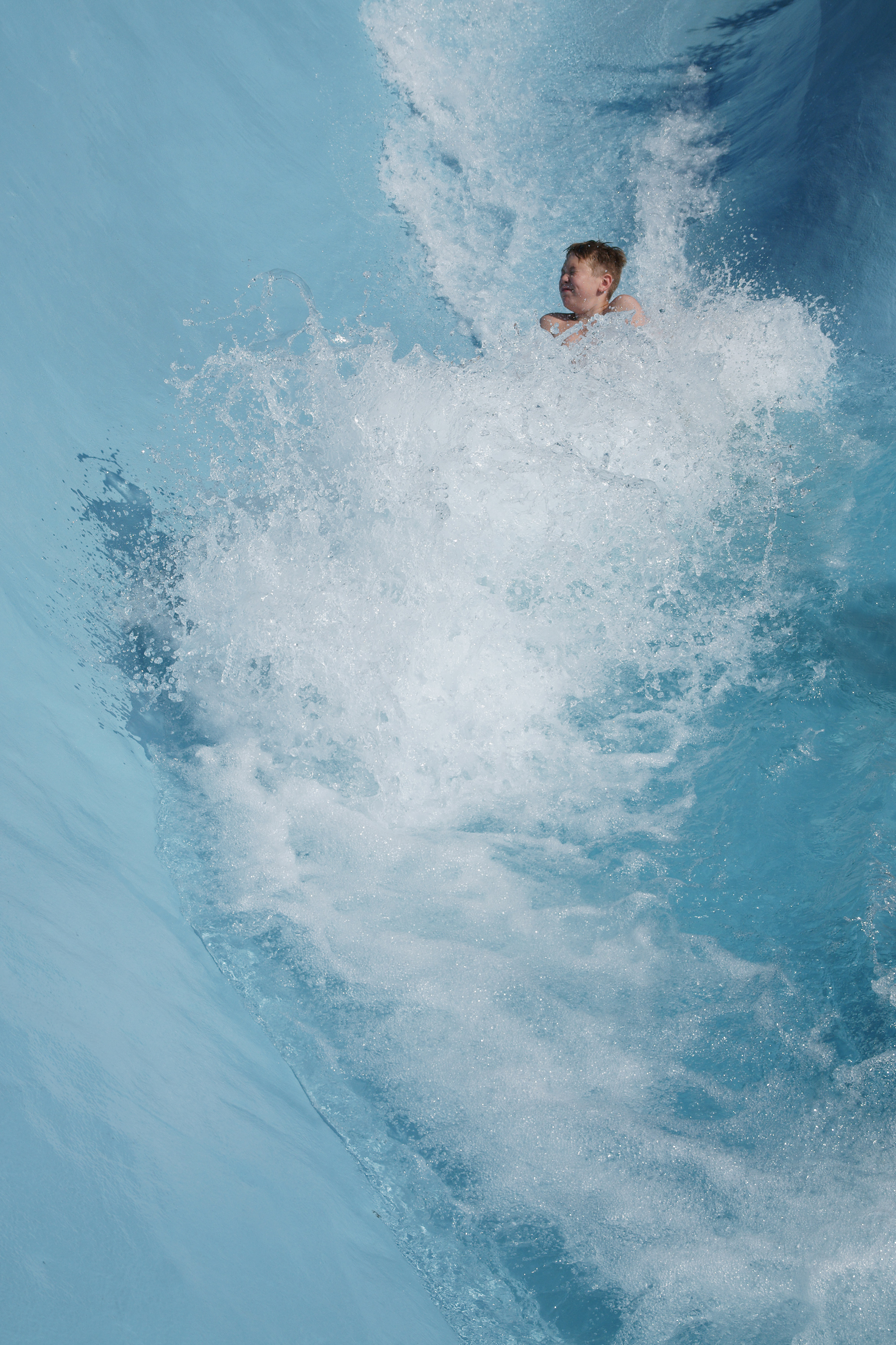 Tube slide in water park Serena in Espoo, Finland.